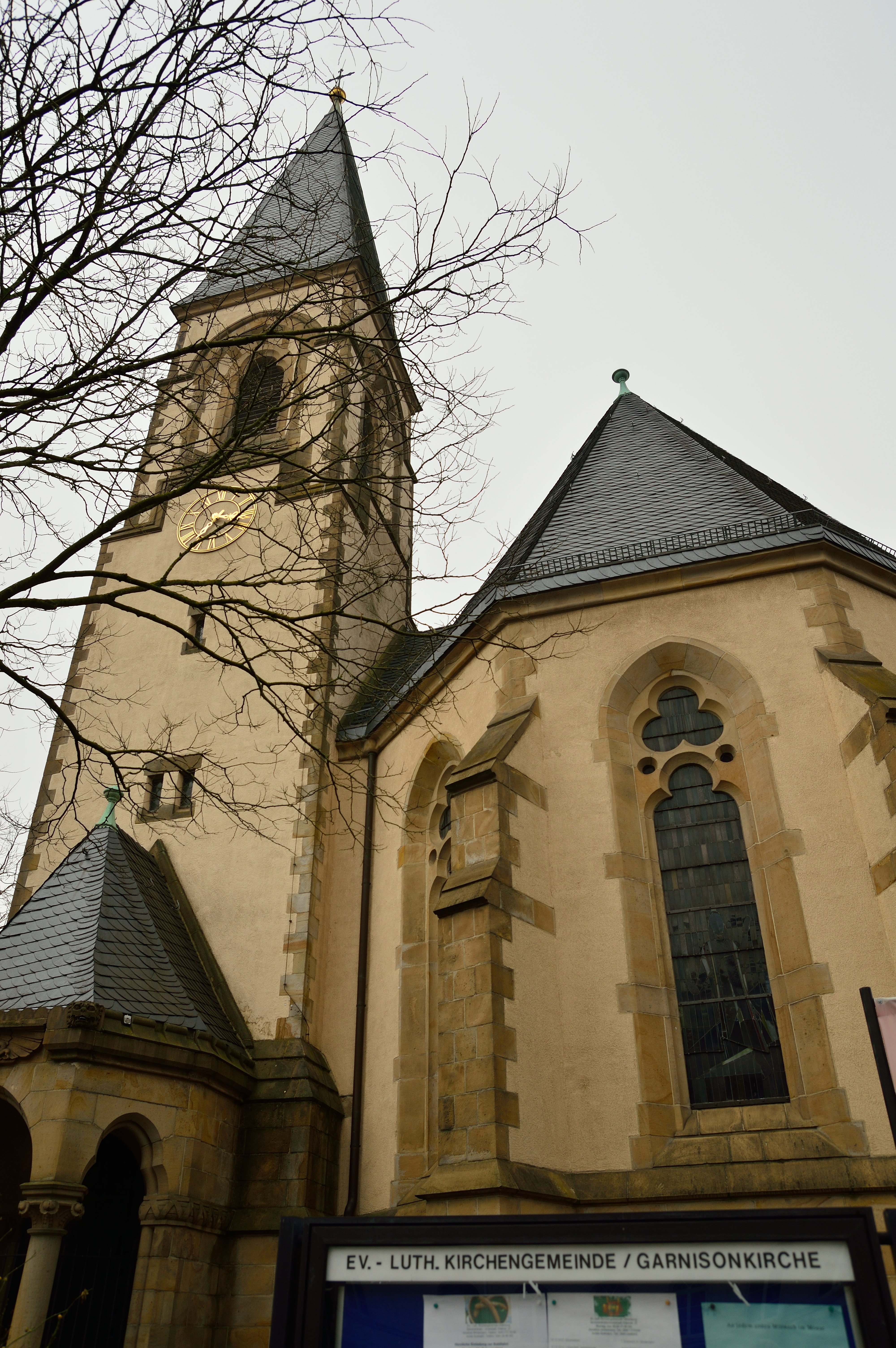 Garnisonkirche Peterstraße Oldenburg